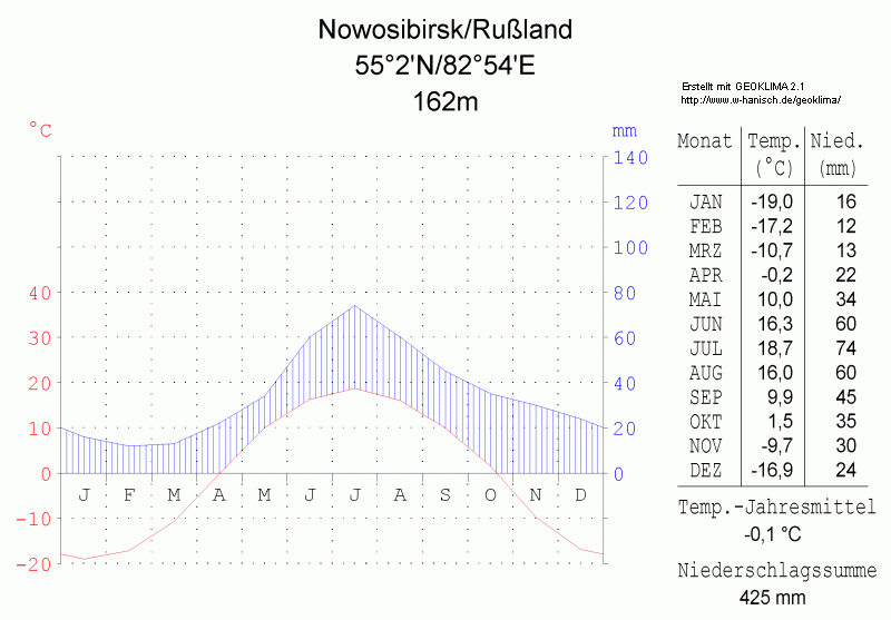 climate chart in the format by Walther and Lieth, metric, °Celsisus and millimeters, made with Geoklima 2.1